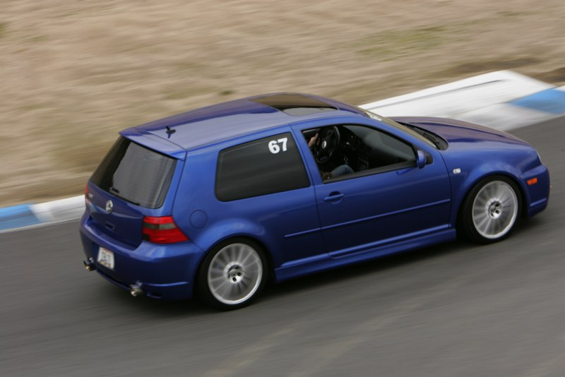 VW Golf R32 at the track